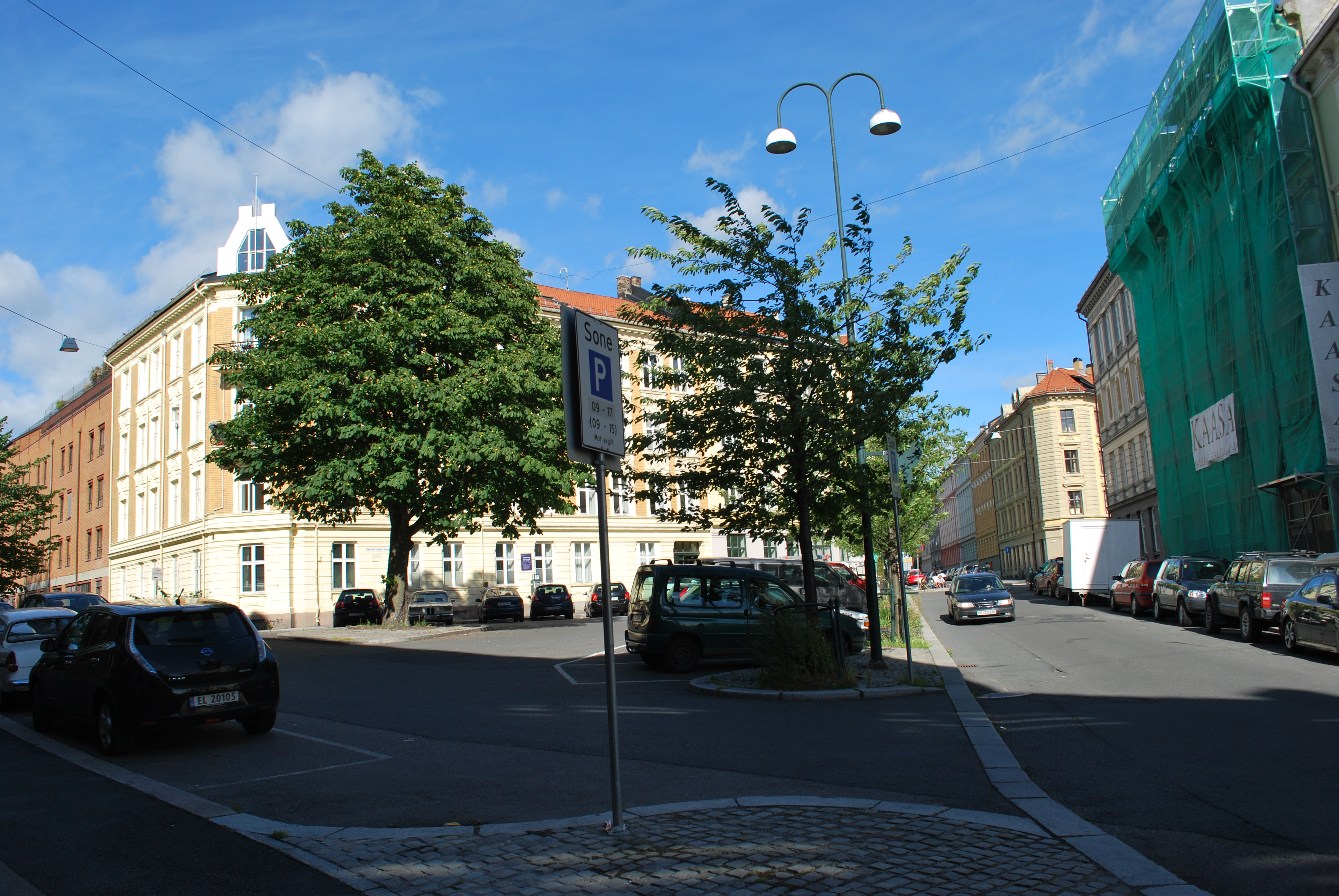 Nini Roll Ankers plass (square), Grünerløkka, Oslo